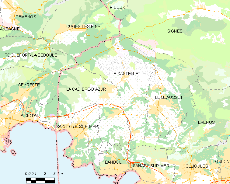 Map of French municipality Le Castellet